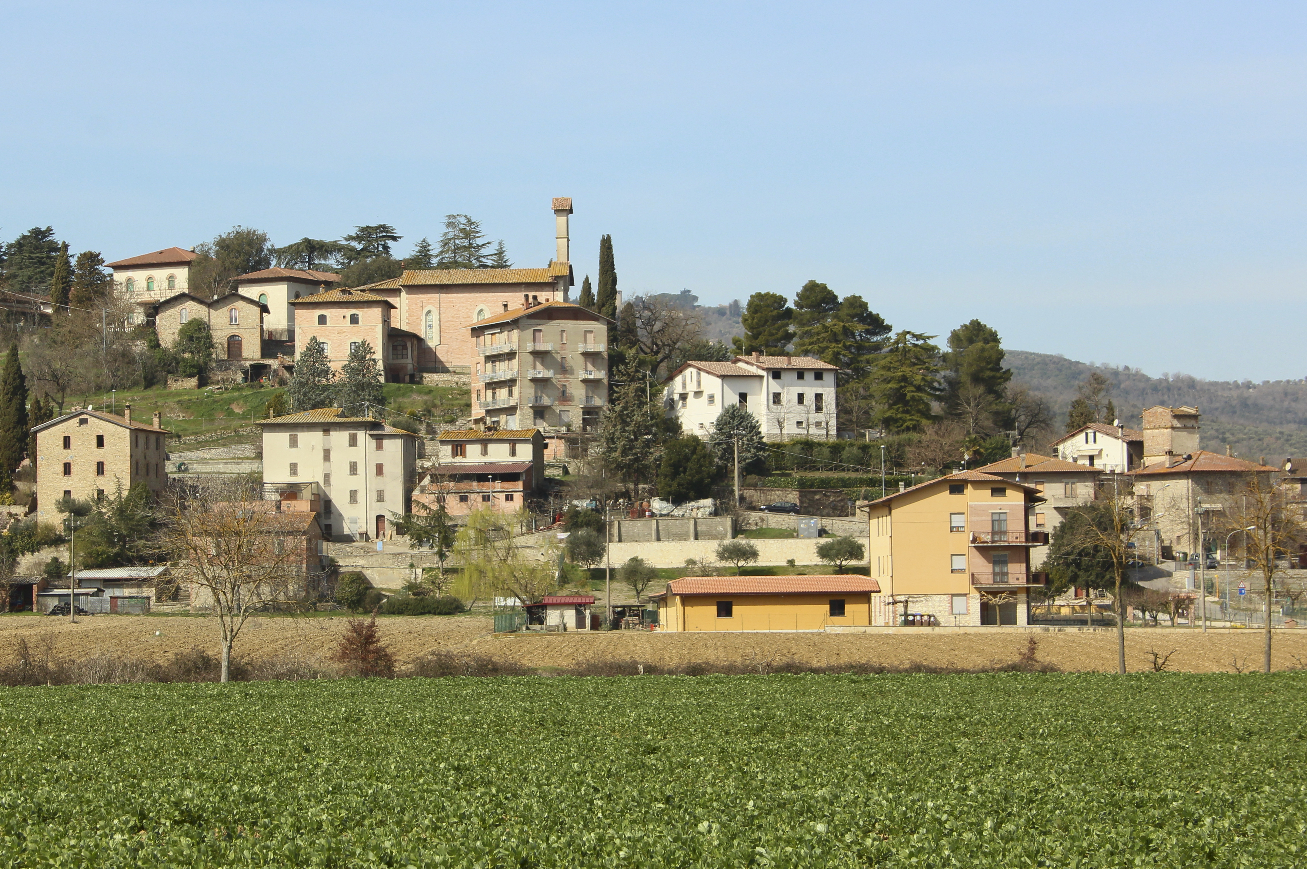 Mercatello, hamlet of Marsciano, Province of Perugia, Umbria, Italy